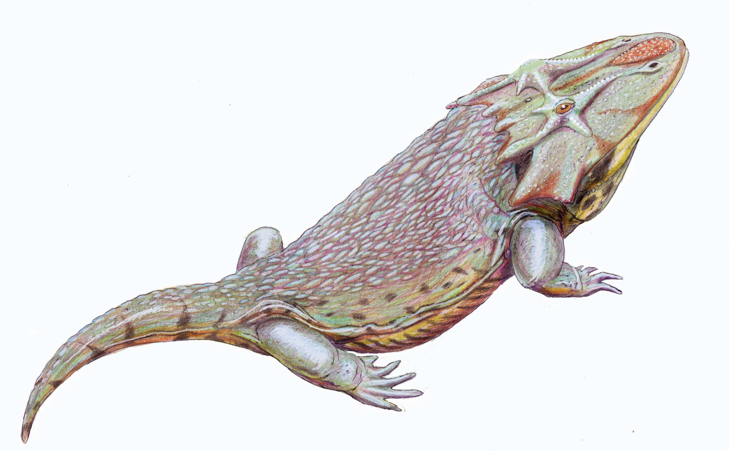 Dasyceps bucklandi - unusual temnospondyl from Early Permian of England